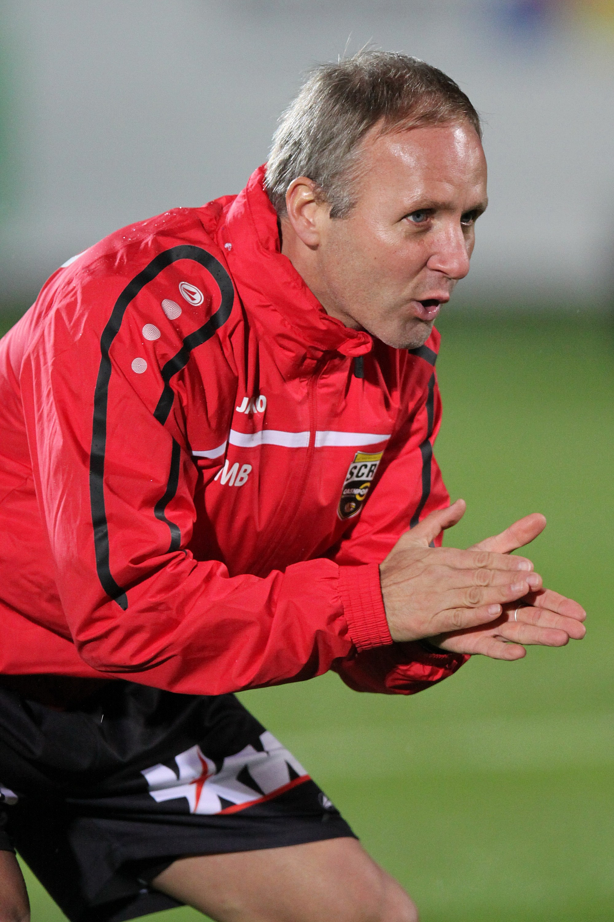 2014–15 Austrian Football Bundesliga: SC Wiener Neustadt vs. SC Rheindorf Altach (2:0 / 0:0) at 2014-12-06 in the Stadion Wiener Neustadt. – The photo shows en: (SC Wiener Neustadt/SC Rheindorf Altach). The making of this work was supported by Wikimedia Austria. For other files made with the support of Wikimedia Austria, please see the category Supported by Wikimedia Österreich.